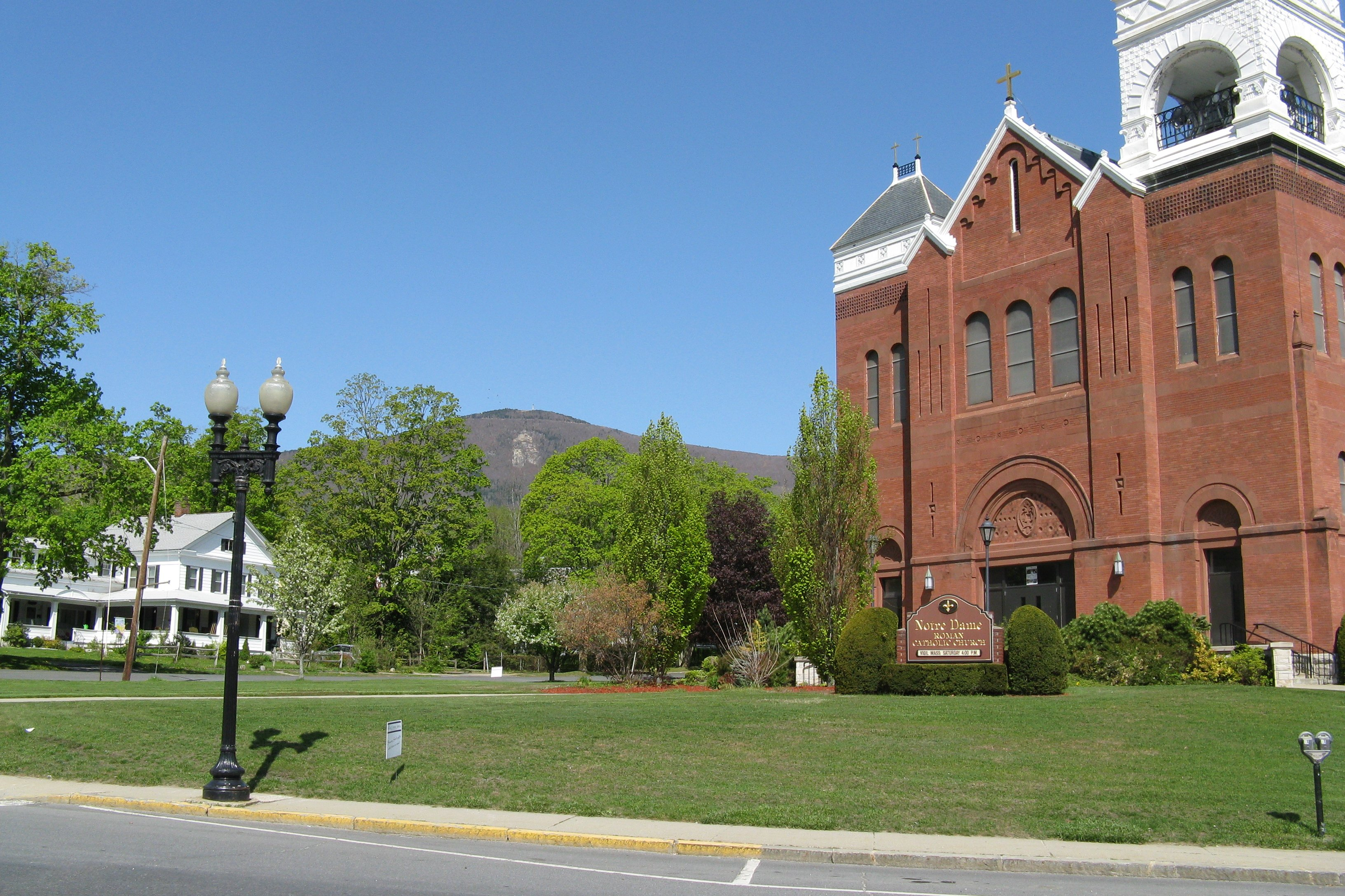 Notre Dame Catholic Church, Adams Massachusetts - Mount Greylock in the background